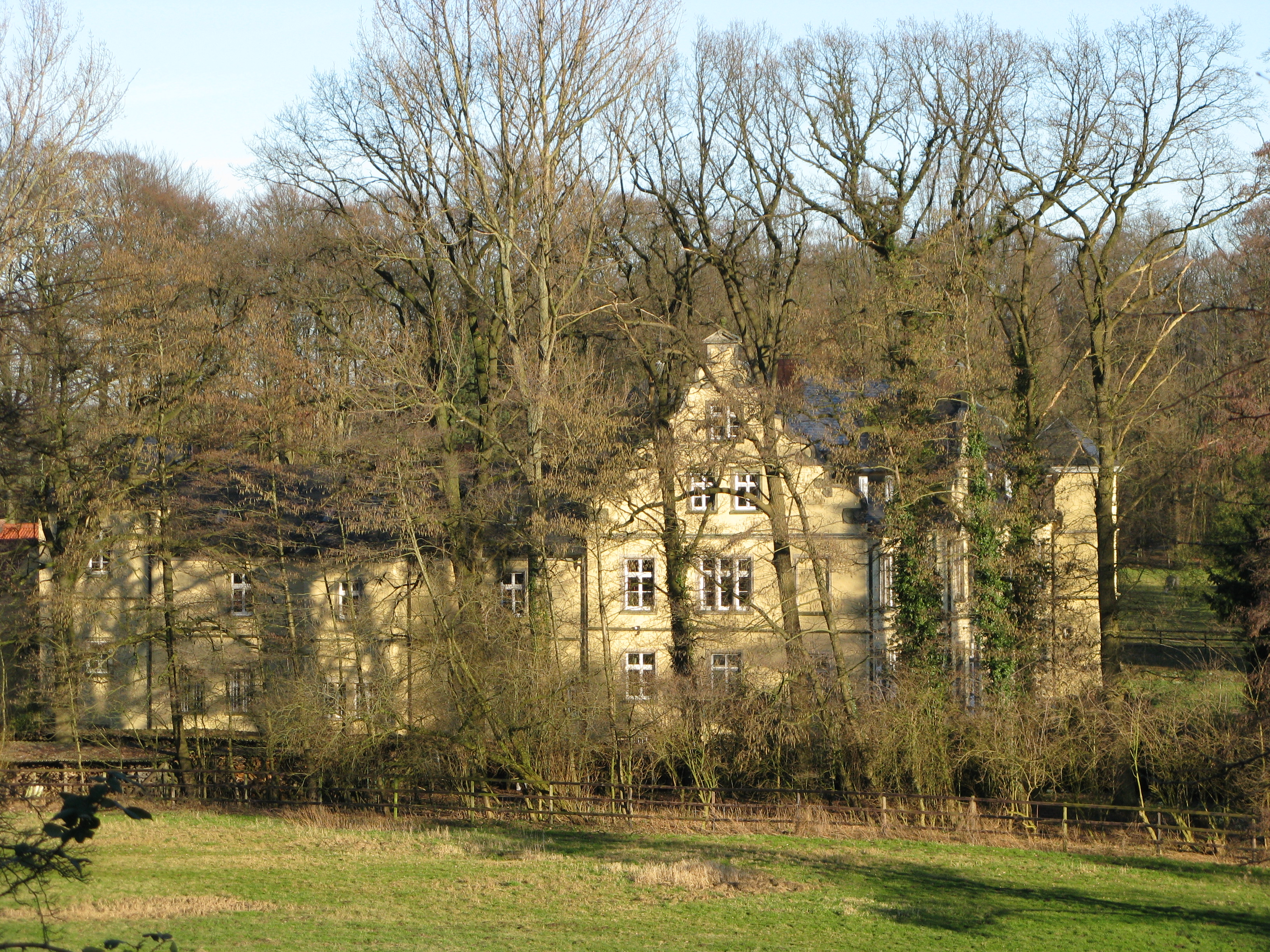 This is a photograph of an architectural monument. It is on the list of cultural monuments of Preußisch Oldendorf